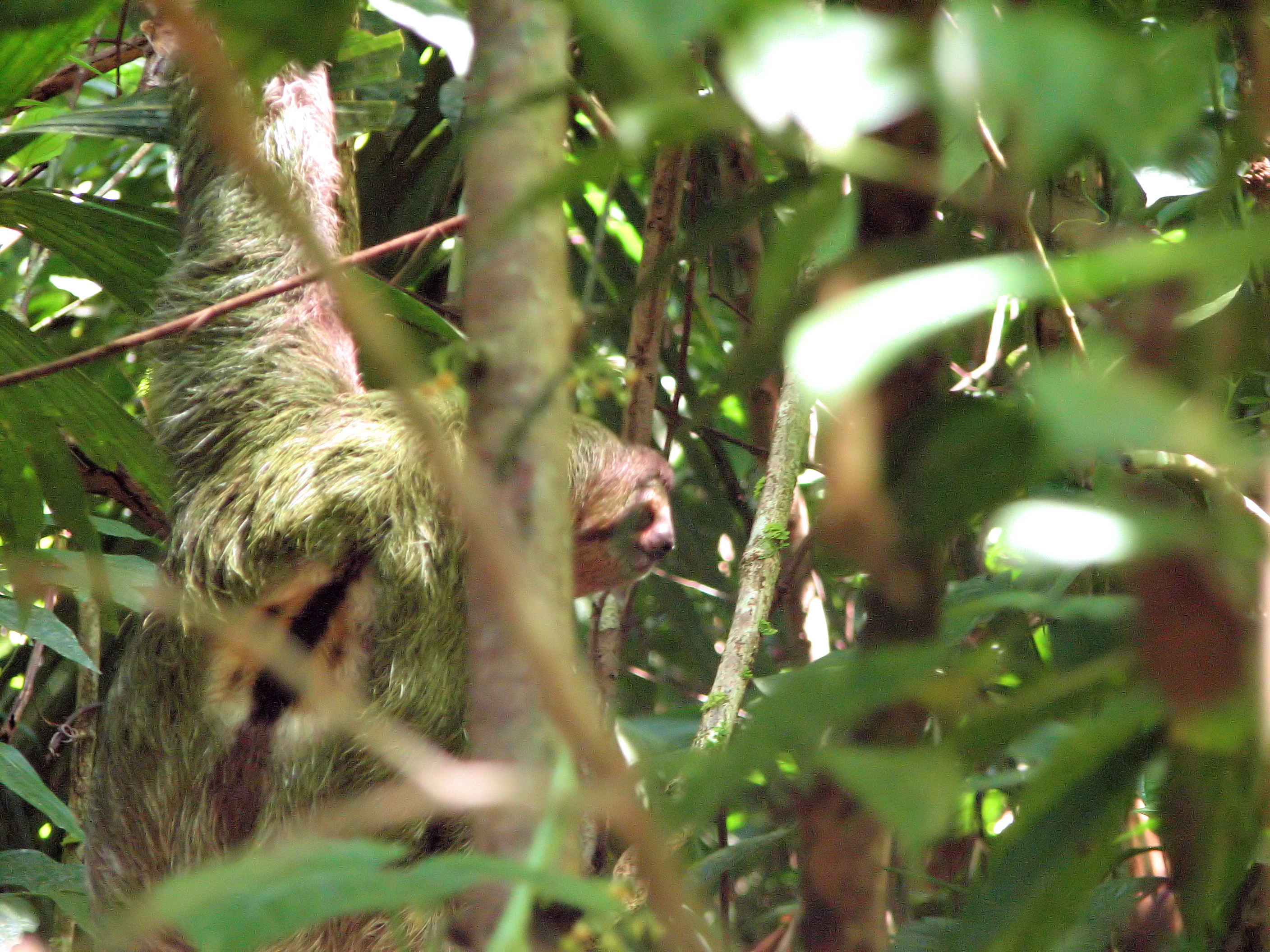 Male, brown-throated three-toed sloth (Bradypus variegatus) taken in Manuel Antonio Park, Costa Rica